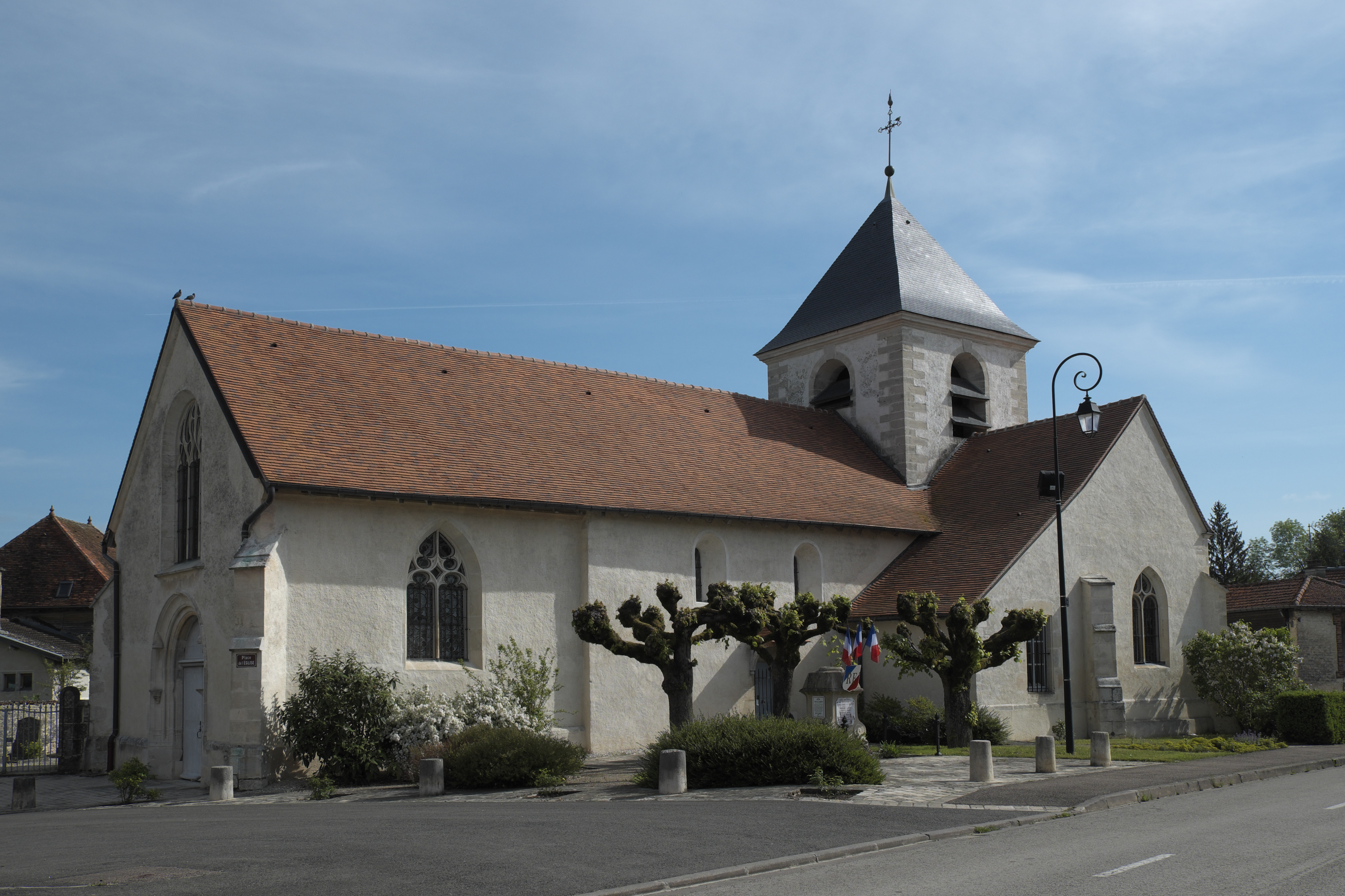 Église de l'Assomption-de-la-Vierge, the village church in Proverville in the Aube département (Grand-Est, France)